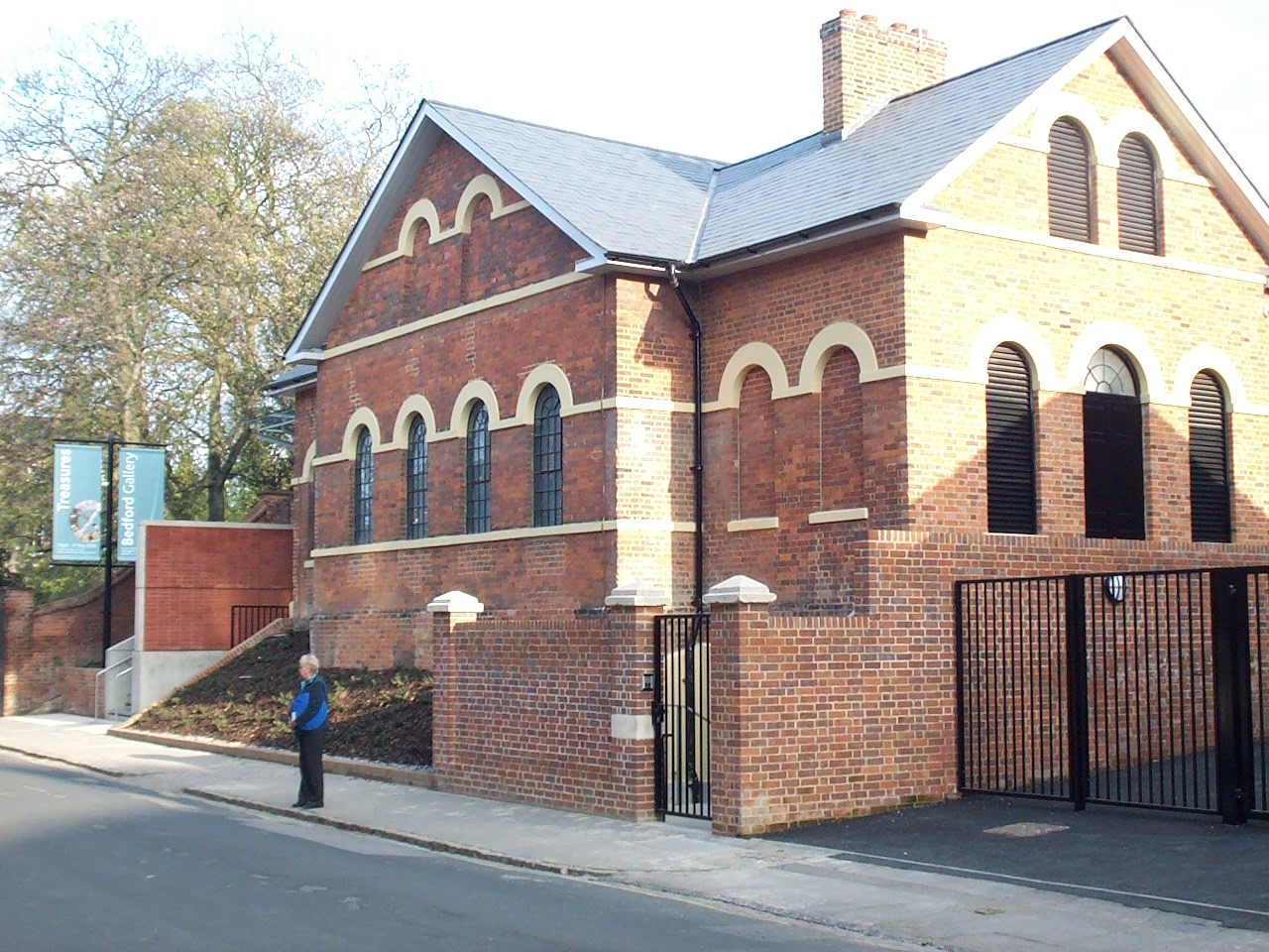 Bedford Gallery, Bedford, Bedfordshire, England.